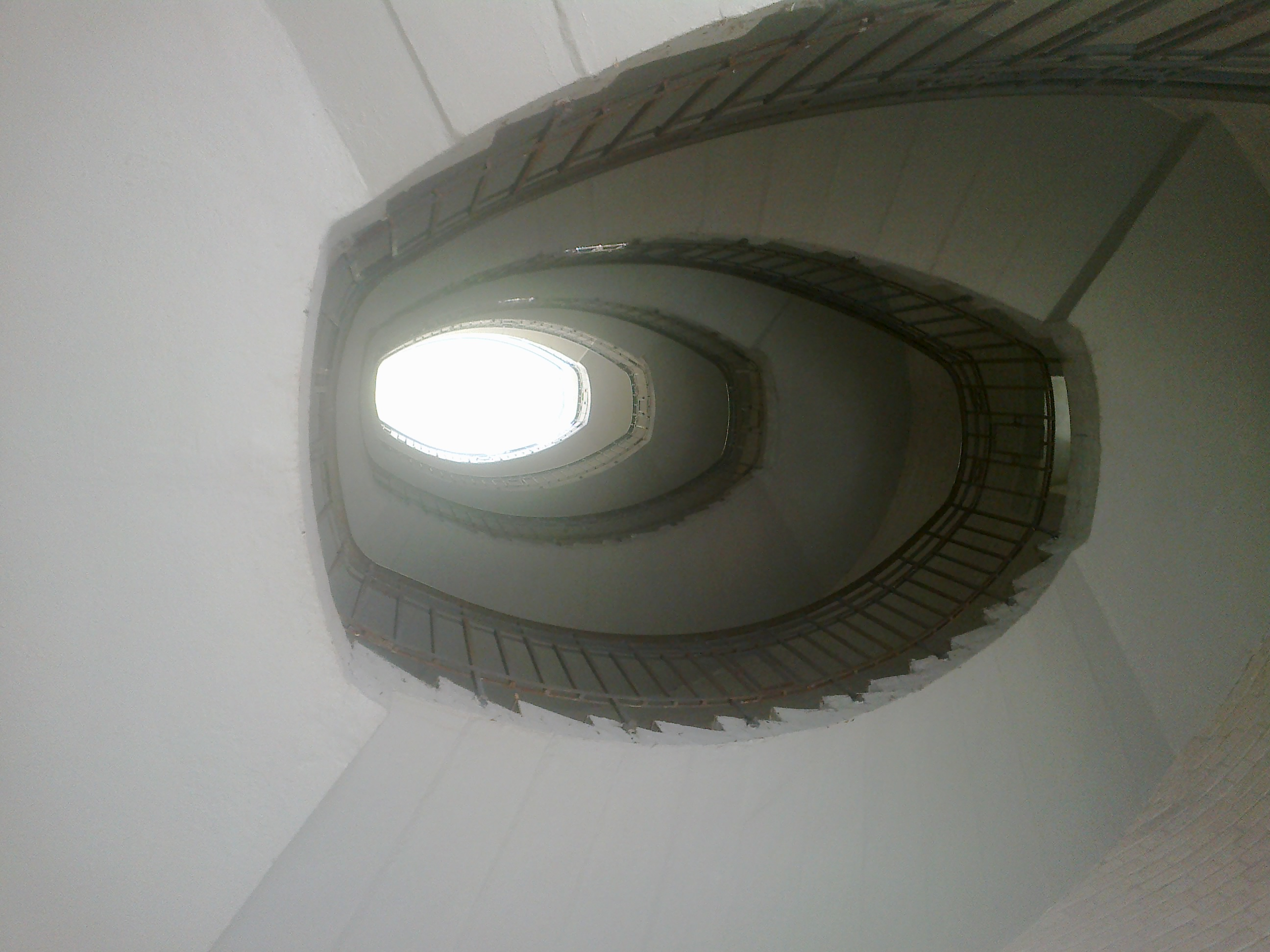 22 metre high tower with observation deck, built in 1911, on the top of Krzywousty Hill, Jelenia Góra, Lower Silesia, Poland.